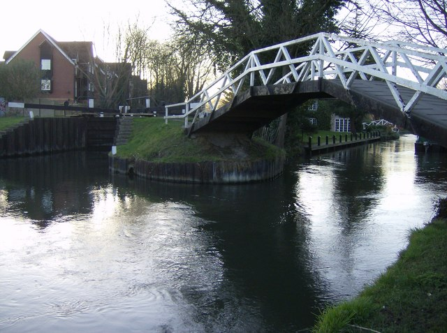 Greenham Lock Bridge carries towpath over the entrance to one of the marinas on the eastern approach to Newbury. New houses beyond lock are named John Gould Court after John Gould who operated working boats on the River Kennet in the Newbury area in the 1940's and 1950's and was one of the main instigators in the restoration of the Kenent and Avon Canal.